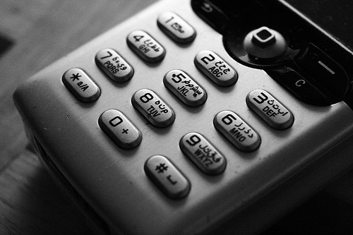 Photo is of a Sony Ericsson T610 (Arabic Language Model)